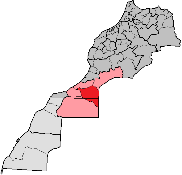 Location of the province Assa-Zag within the region Guelmim-Es Semara, Morocco. In total, Morocco has 16 regions, subdivided into 62 provinces and 13 prefectures.